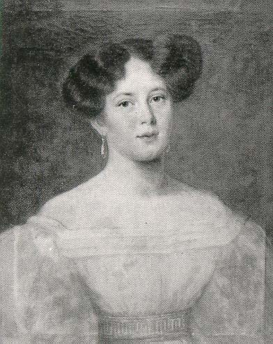 Duchess Maria Dorothea von Wurttemberg (1797-1855) wife of Archduke Joseph, Palatine of Hungary